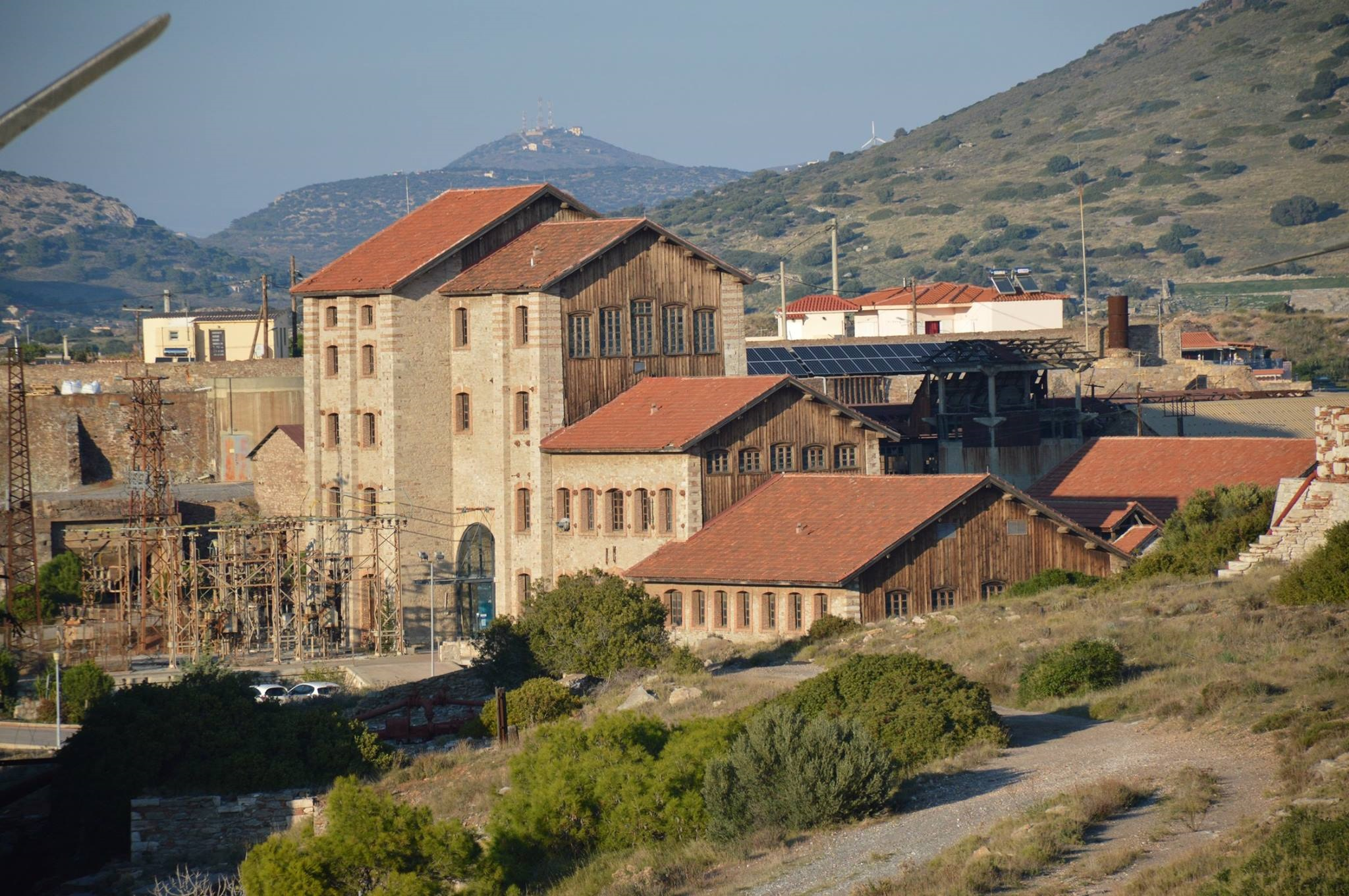 Laurium, technological park in southeastern part of Attica, Greece